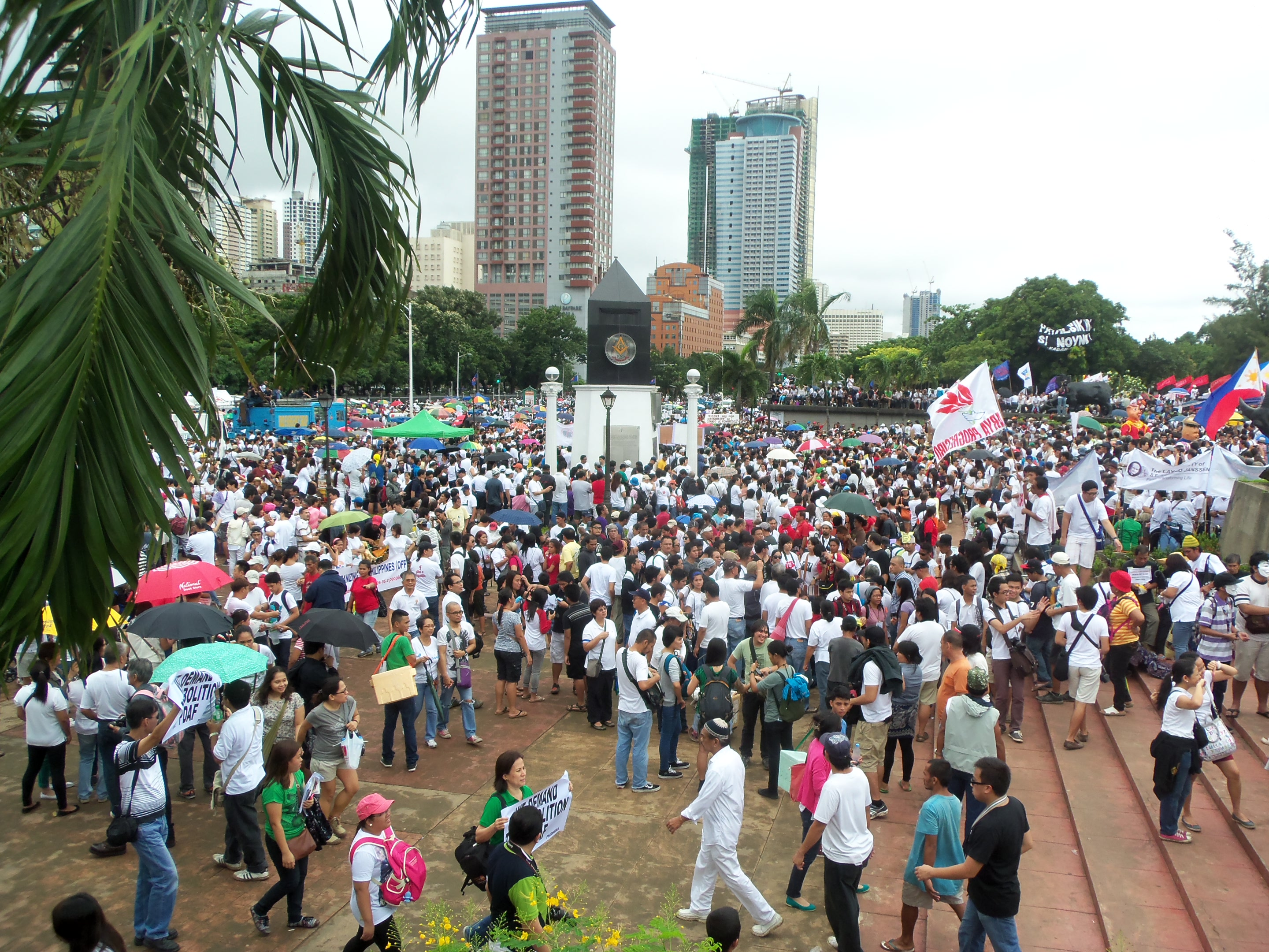 Hundreds of Filipino protesters gathered at Manila's Luneta Park and Quirino Grandstand to protest the Pork Barrel Scam that involved several members of Senate and the House of Representatives in 2013.